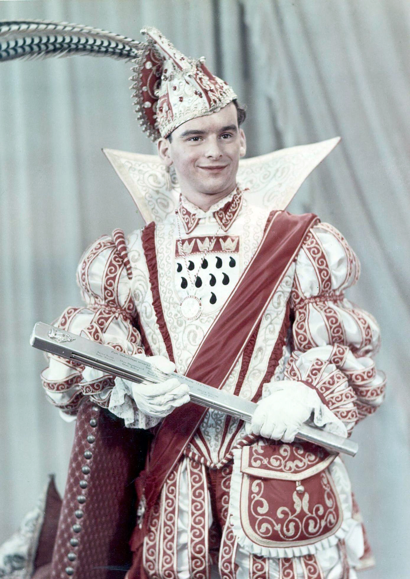 Johann Maria Wolfgang Farina as Johann Maria I, Prince Carnival 1952 in Cologne